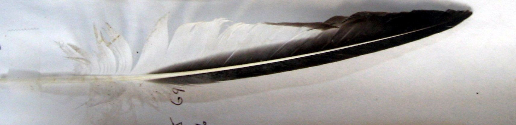 Another way roseates are stealthy: they blend in with the commons reeeeally well. They look very very similar. The biggest giveaway is that they have a bit more black on their beaks. Or, if you have a bird in your hand, you can compare flight feathers. See the "V" shape of black that opens out from the tip of the common feathers? Roseates don't have that, only a stripe of black to the leading edge. I say this as if I were confident that I could be trusted to successfully ID any individual specimen. I'm not... they're REALLY similar-looking.